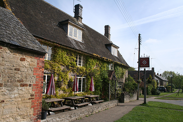 The Star Inn, Manor Road, Sulgrave, Northamptonshire